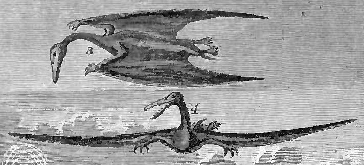 Two reconstructions of Ornithochirus umbrosus Cope 1872 (Adapted from a plate opposite page 356 in Webb's 1872 Buffalo Land), most likely from instructions provided by E.D. Cope. Note that neither pteranodon has a crest (unknown in 1872) and the lower figure (4) has teeth (assumed).